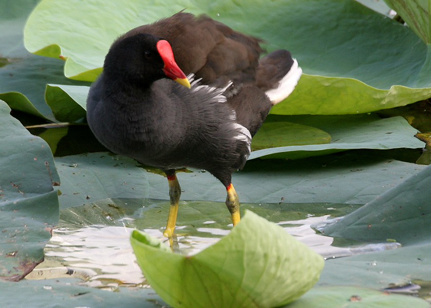 Common Moorhen Gallinula chloropus in a Nelumbo nucifera Indian Lotus pond at Lotus Pond, Hyderabad, India.